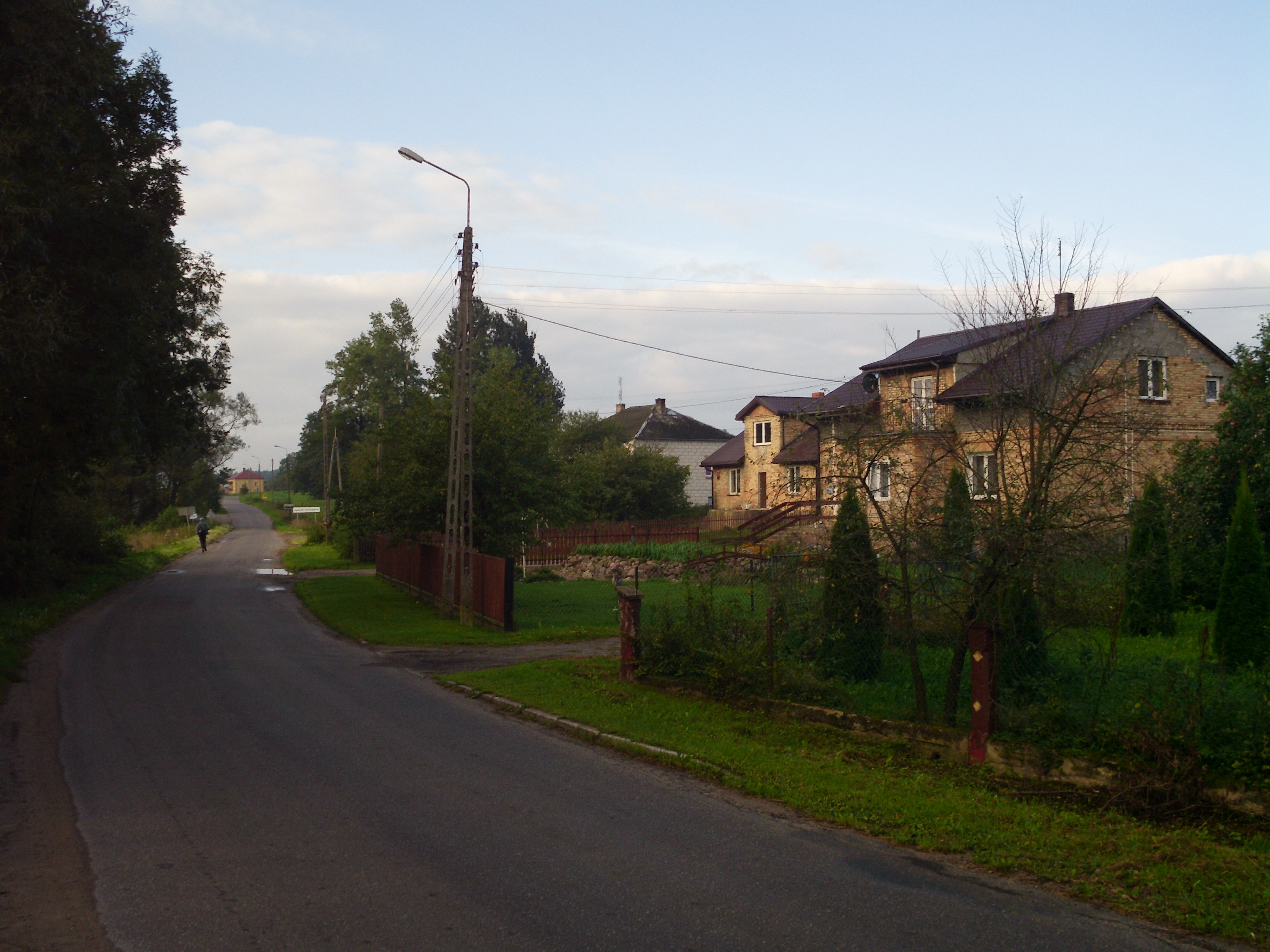 Houses in Jamiołki-Świetliki, Poland. The white traffic sign at the roadside in rear shows the limits of the following village, Jamiołki-Piotrowięta.